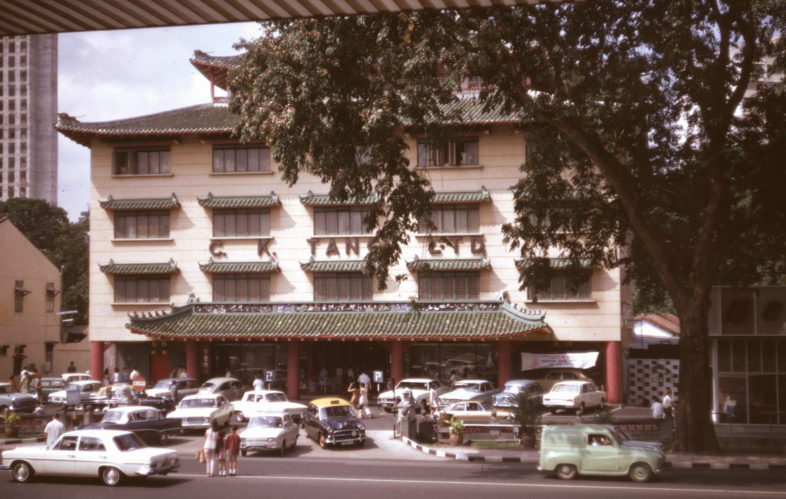 Tangs department store, Singapore, photographed February 1969 × July 1971: almost certainly the one at 310 Orchard Road.